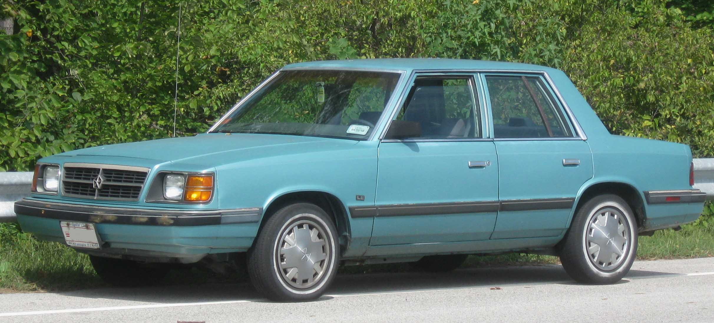 1986-1989 Dodge Aries photographed in College Park, Maryland, USA.